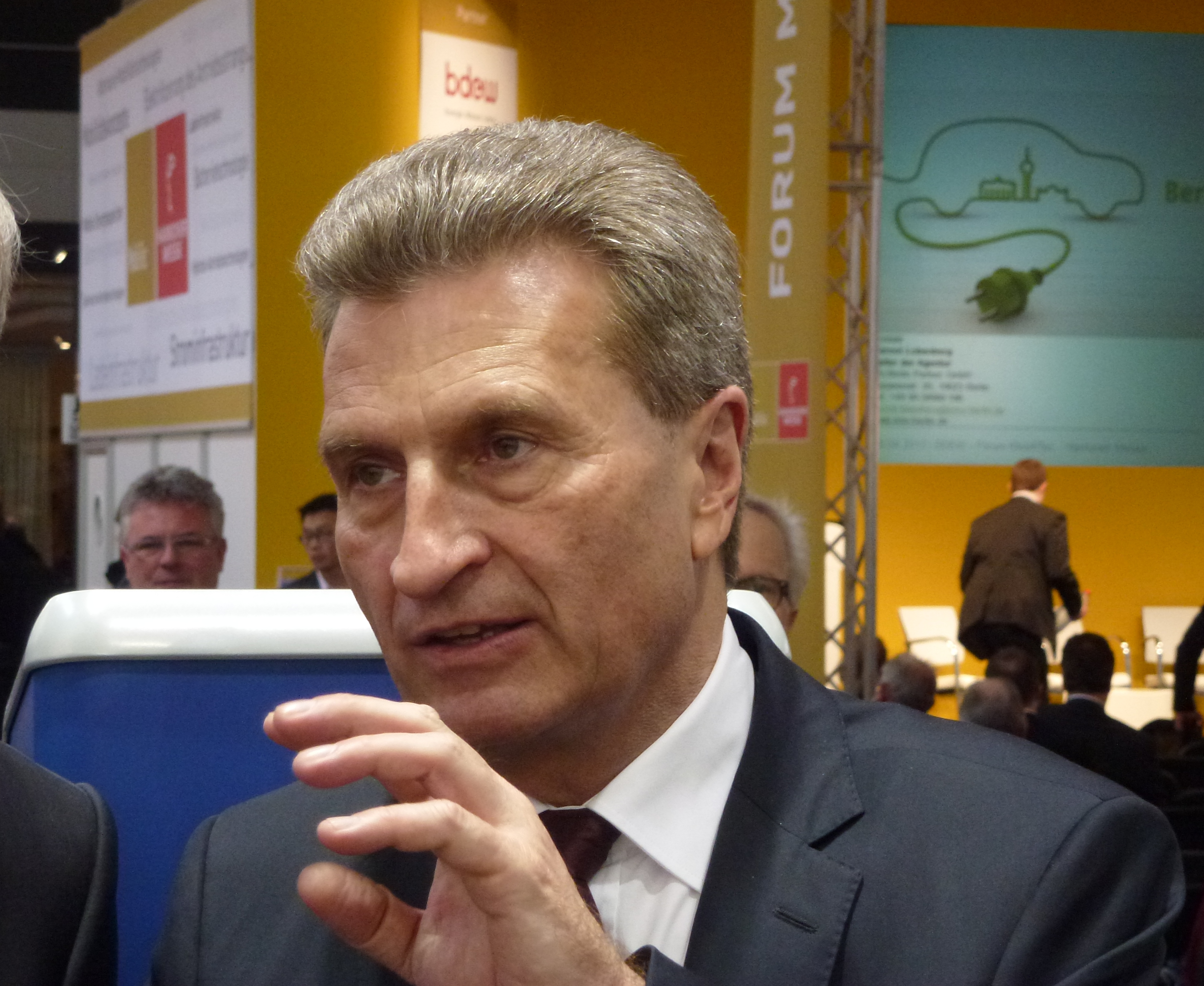 Günther Oettinger 2013 at Hannover Messe